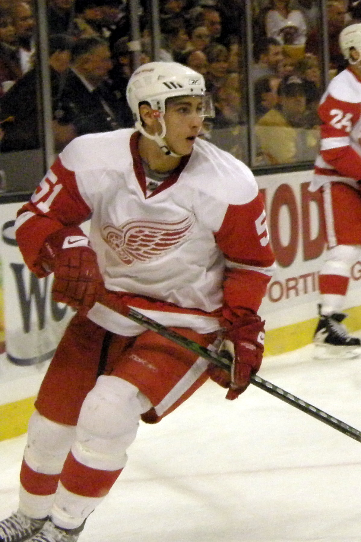 Valtteri Filppula, ice hockey player from Finland for the Detroit Red Wings